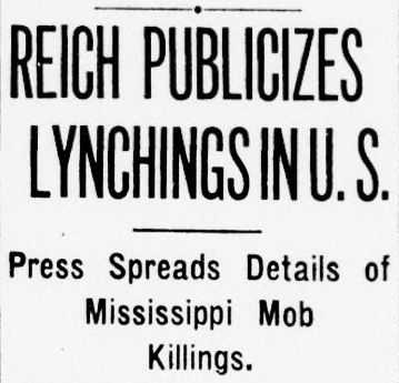 Nazis Condemn the Mississippi lynchings of Roosevelt Townes and Robert McDaniels